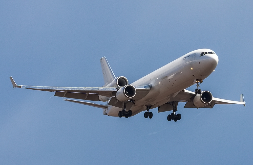 Nordic Global Airlines McDonnell Douglas MD-11F (registration: OH-LGC) landing at Novosibirsk Tolmachevo Airport.